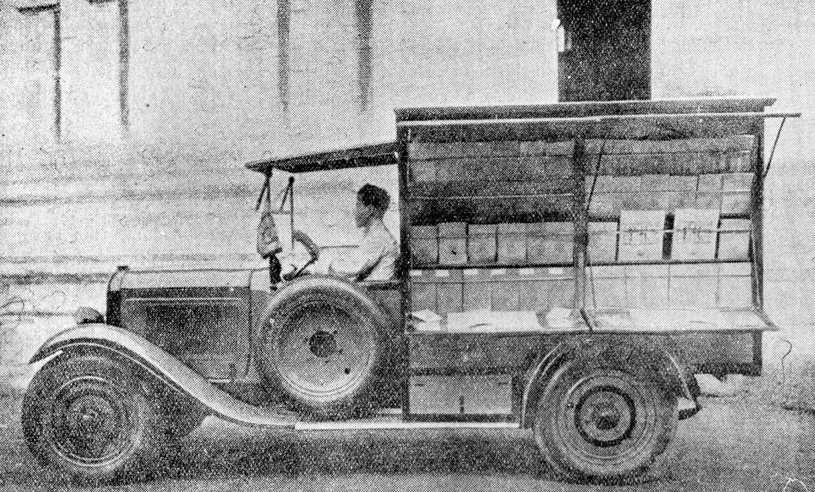 “Rolling Library” of the Institut bouddhique de Phnom Penh, opened 1930 as part of the National Library.